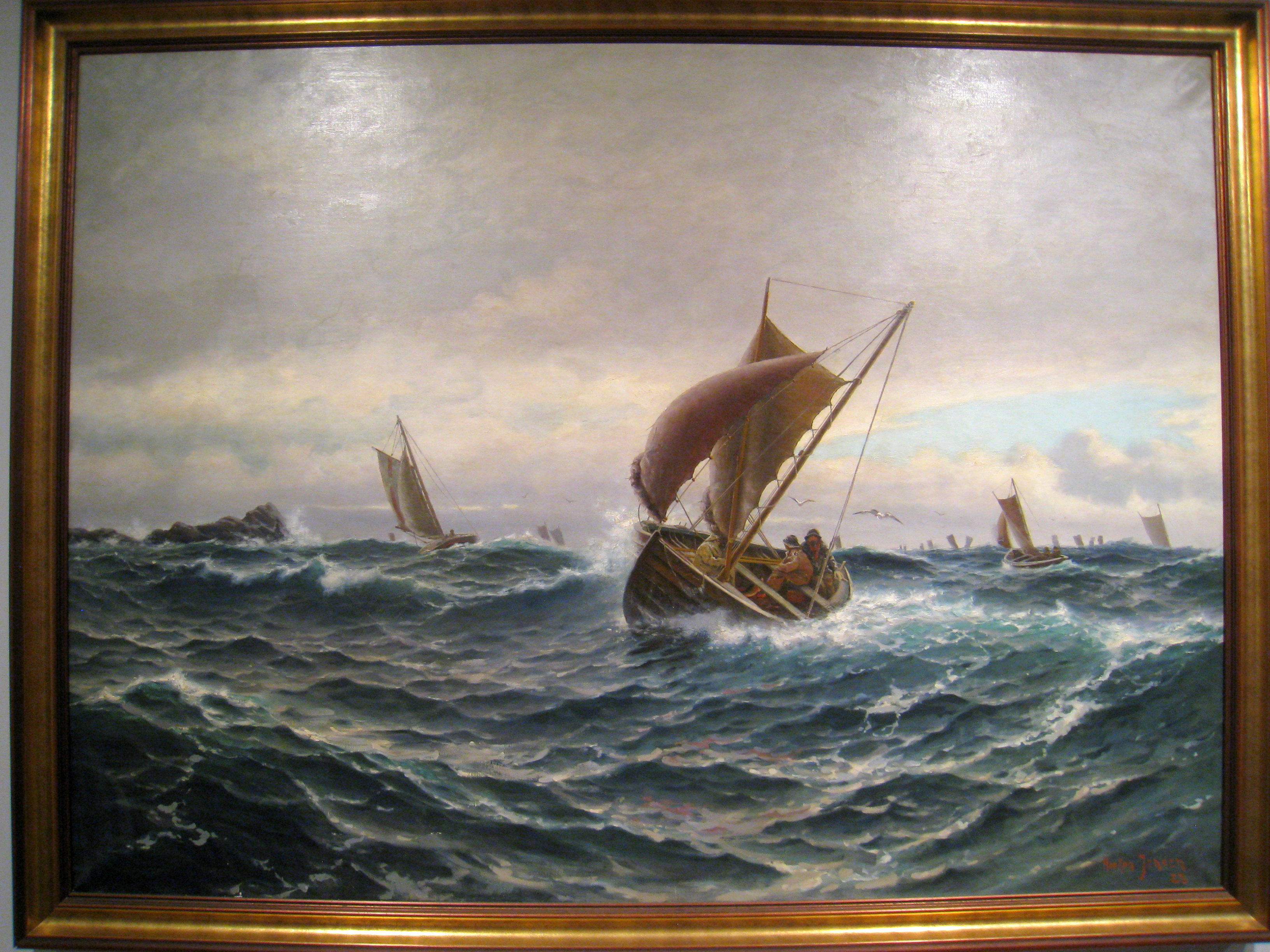 Public domain - reproduction of a painting that is in the public domain because of its age.